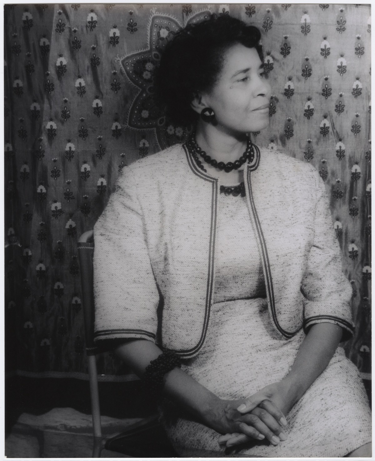 Photo of Evelyn La Rue Pittman taken by Van Vechten, Carl, 1880-1964